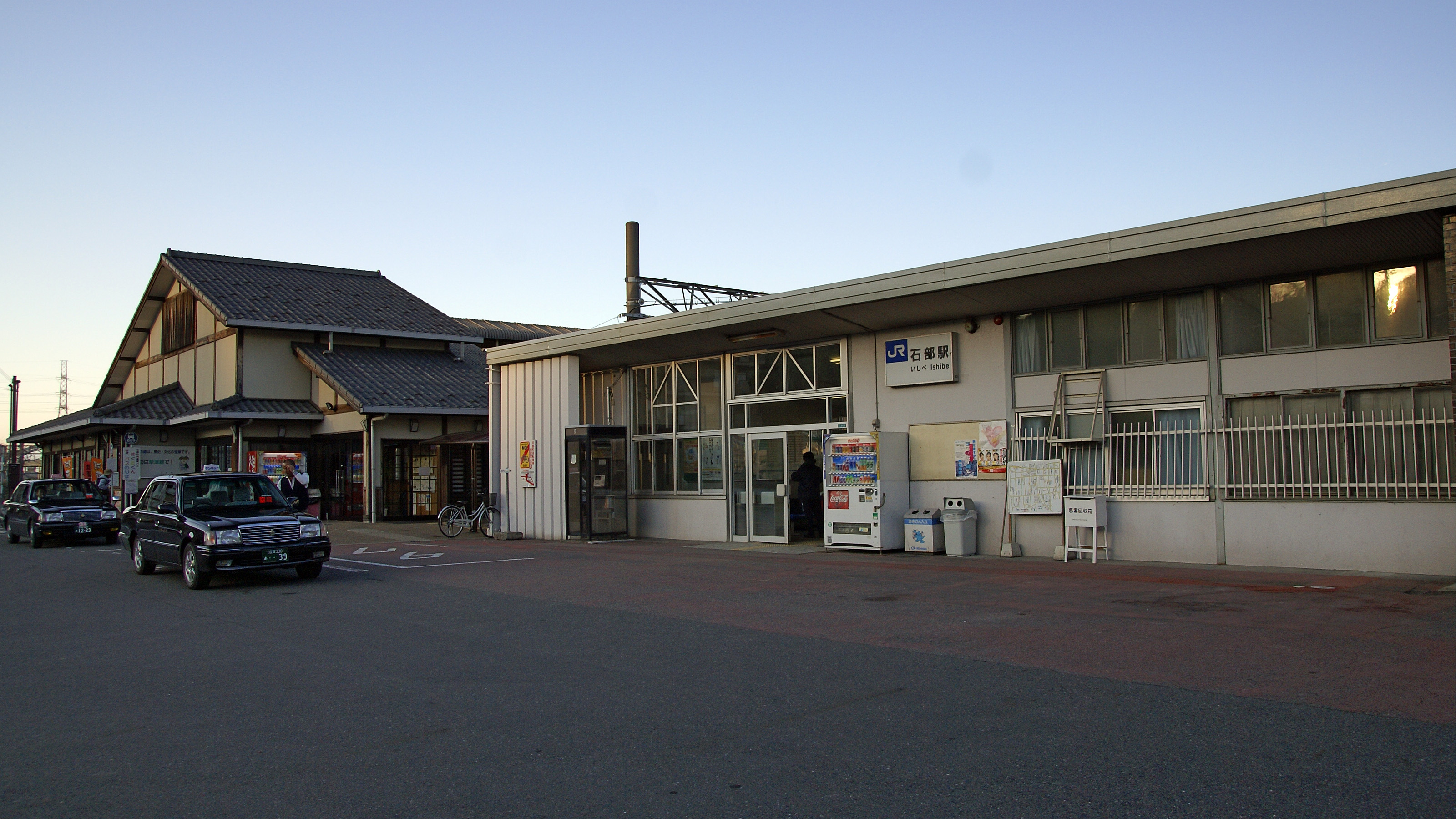 Ishibe Station in Konan, Shiga, Japan